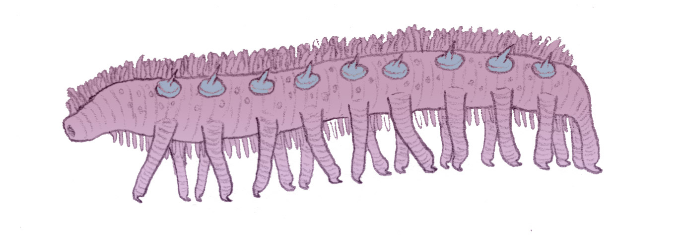 Reconstruction of Onychodictyon, an extinct lobopodan